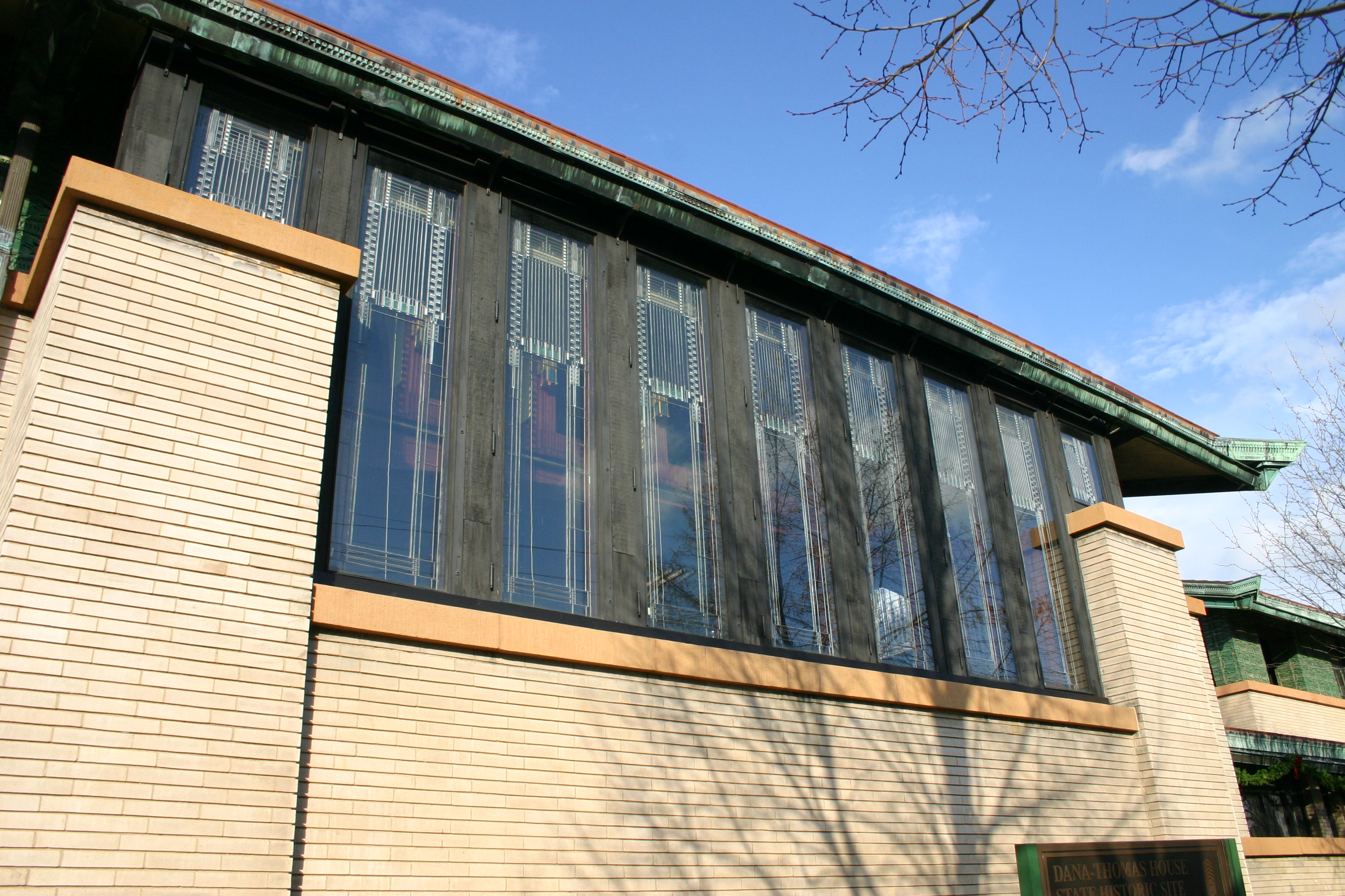 Frank Lloyd Wright designed stained glass windows — on south facade of the Dana-Thomas House, in Springfield, Illinois.